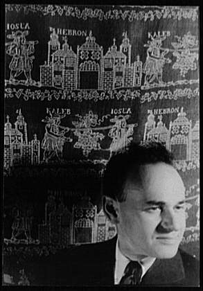 American writer and cultural critic Gilbert Seldes (1893-1970)